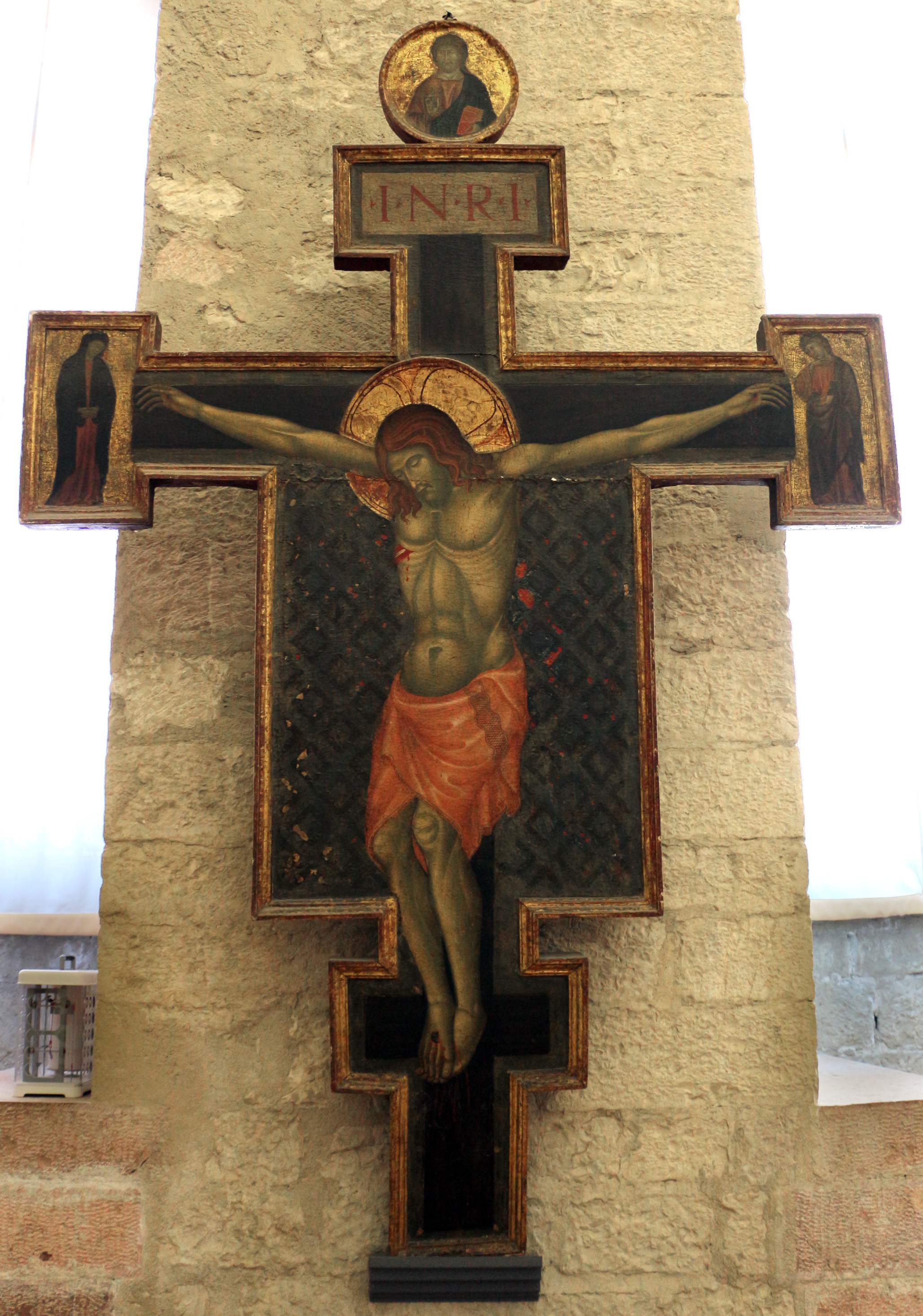 Paintings in the Museo Civico (Gubbio)